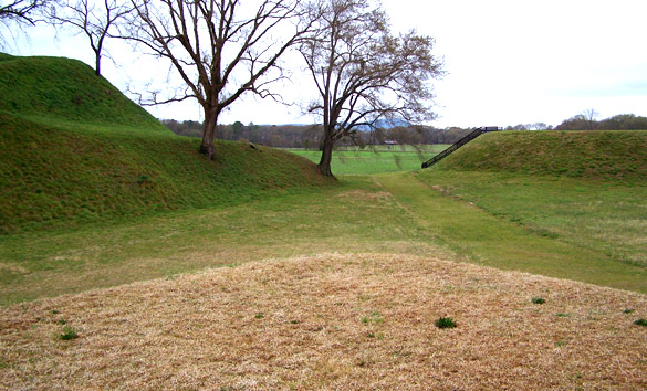 A pic of the Etowah Mound Site in Cartersville, Ga.